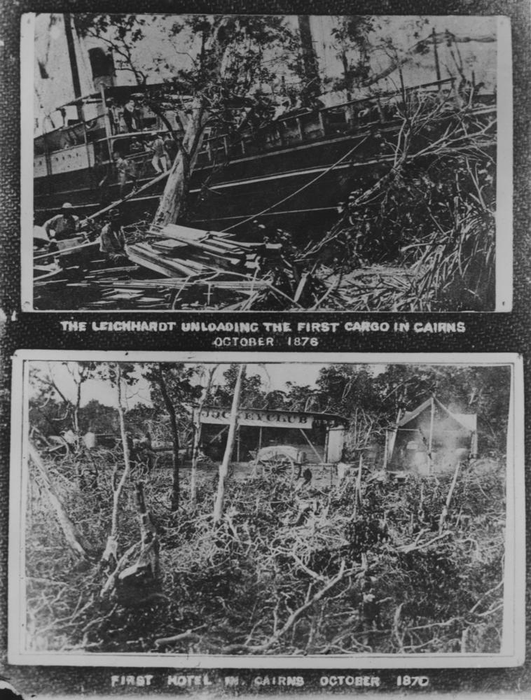 Two photographs of Cairns in the 1870s. The vessel, Liechhardt unloading the first cargo into Cairns. Photograph below of the Jockey Club, the first hotel in Cairns in October, 1870. The Bank of New South Wales later occupied this site at the intersection of Spence and Abbott Streets. Reproduced from an original glass negative no. 671. (Description supplied with photograph.).